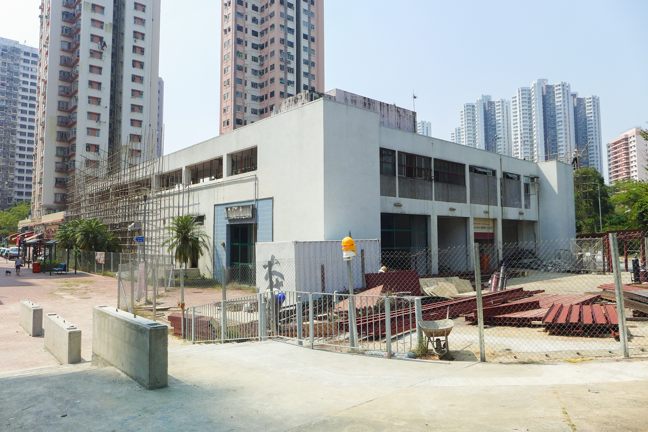 Kwong Choi Market prepare demolish